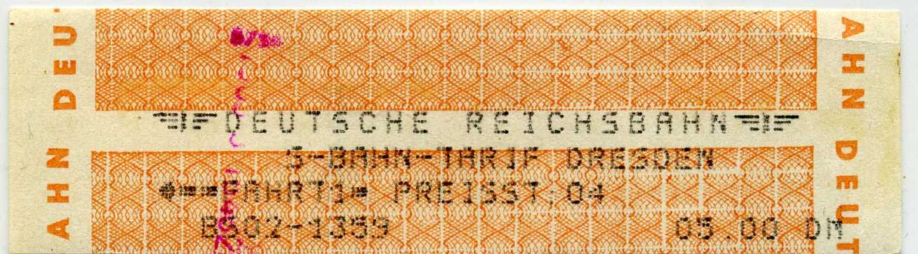 DR Deutsche reichsbahn fahrkarte, preisstufe 04 - price 5.DM (1994) By this time, the DR had been absorbed into Deutsche Bahn, though liveries and tickets remained as DR.